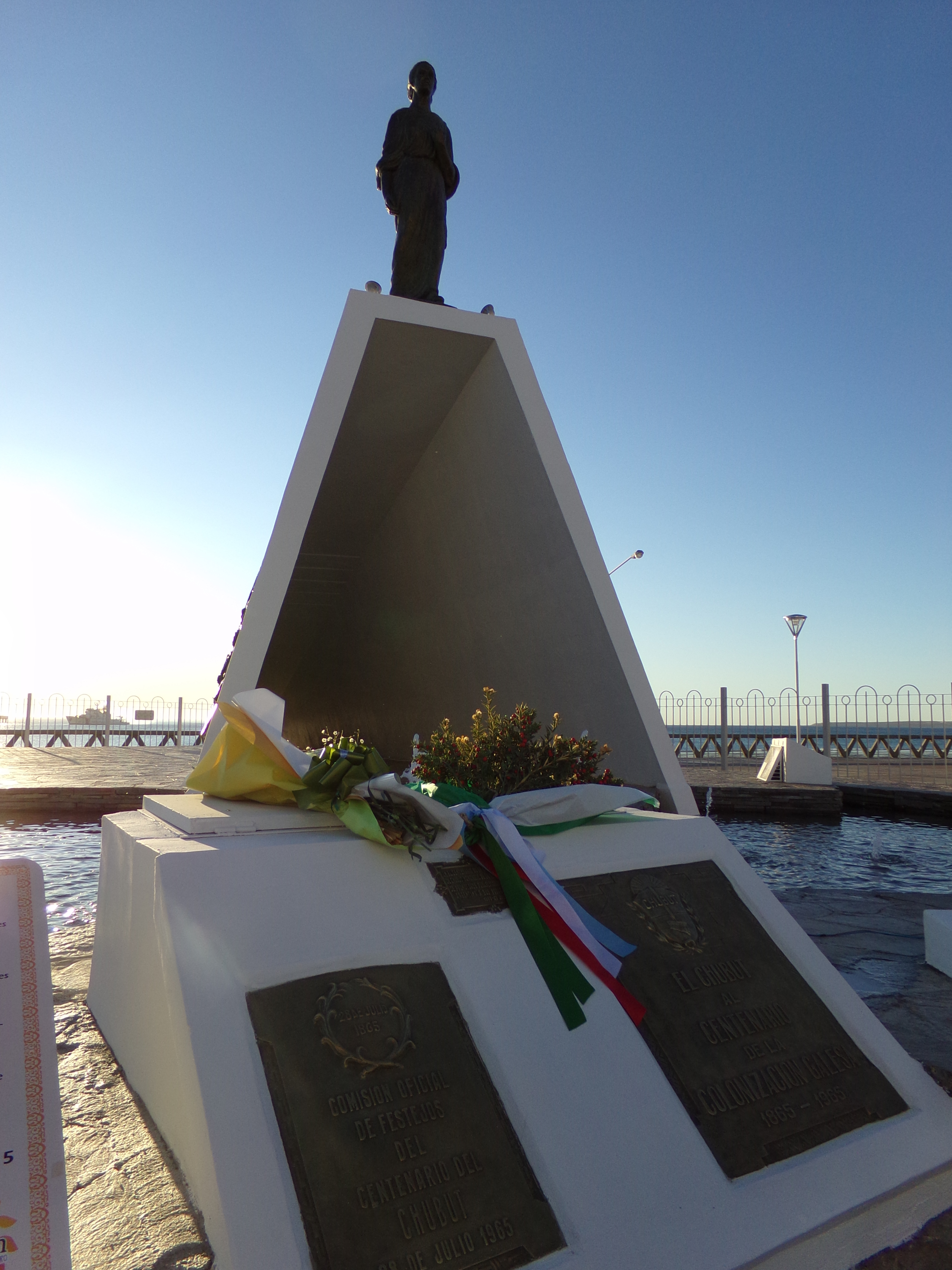 Ceremony at the Monument to the Welsh Woman of Puerto Madryn, where wreaths were placed.